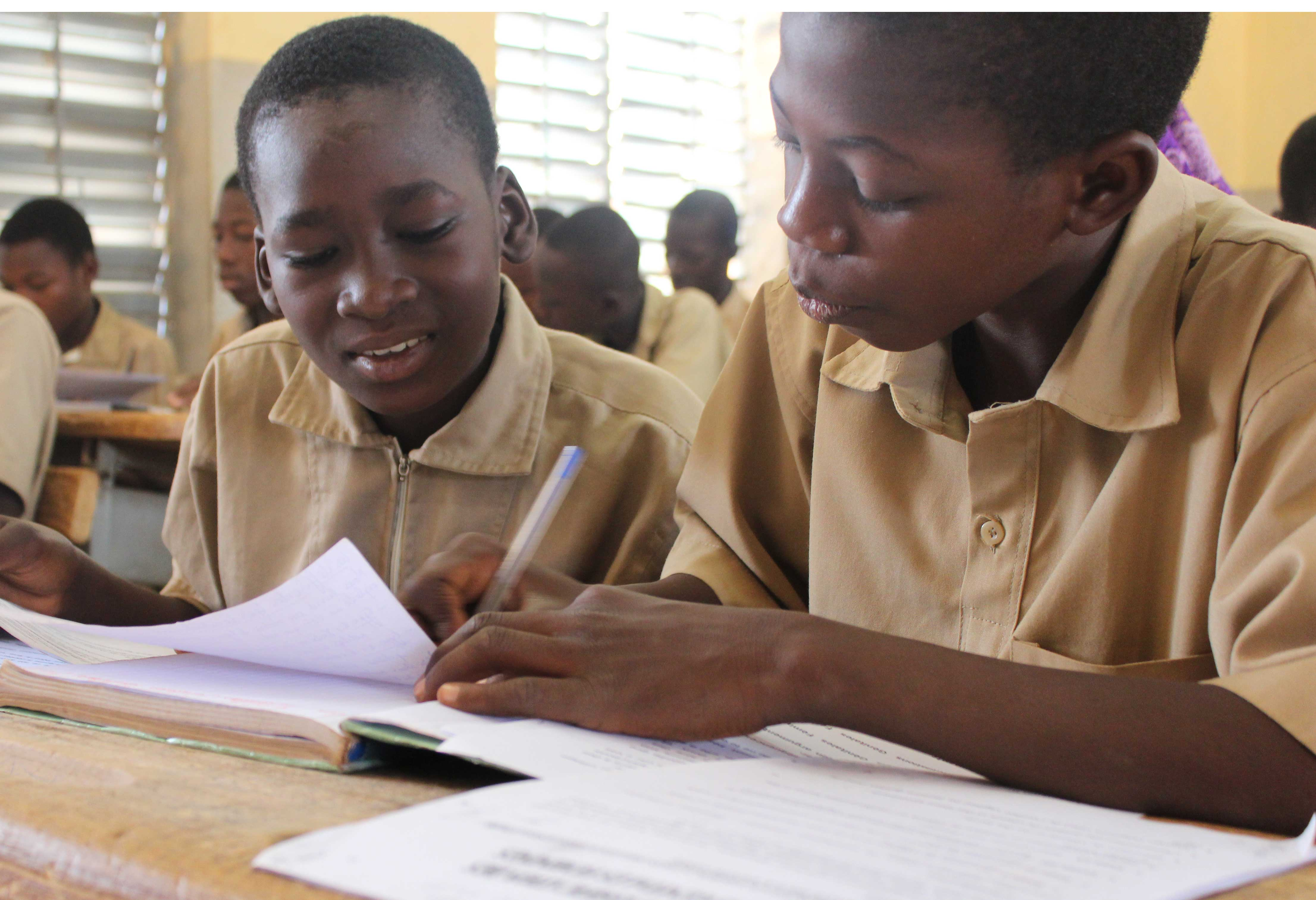 FGM/C is a powerful social norm that has been carried out for thousands of years. To try and break the cycle, the Burkina Faso government have included FGM/C in the curriculum to teach both boys and girls about the consequences of cutting when they’re at school. The UK is working to reduce the practice by 30% in at least 10 countries in Africa in the next 5 years. Find out more about our work: bit.ly/1krV9Qk Take a stand. Pledge to end FGM, child marriage and forced marriage now: Picture: Lindsay Mgbor/DFID